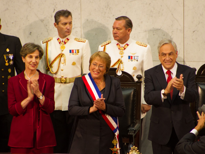 Michelle Bachelet (center) at her second inauguration as Chilenian president together with Isabel Allende Bussi (left) and her predecessor in office, Sebastián Piñera (right)